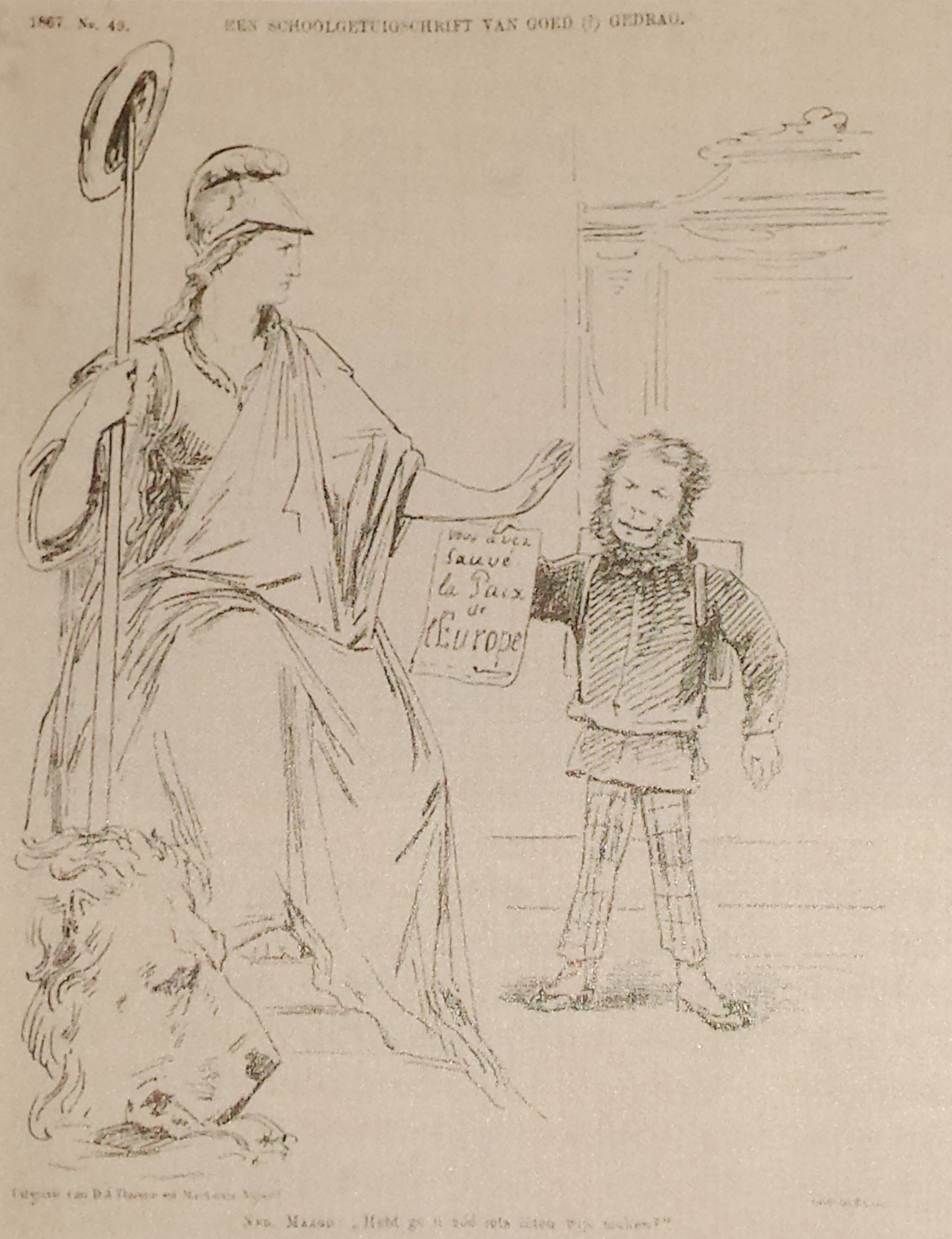 Caption from Het aanzien van een millennium (1999) p. 208: "Cartoon by the Nederlandse Spectator from 1867. Dutch Foreign Minister Van Zuylen van Nyevelt proudly shows the Dutch Maiden the telegramme in which German Chancellor Bismarck congratulates him on 'saving the peace in Europe'. She however seems rather unimpressed by this 'heroic deed'." Text above: "1867 No. 49. A SCHOOL REPORT FOR GOOD (?) BEHAVIOUR." Text on the telegramme: "Vous avez sauvé la Paix de l'Europe." (French for "You have saved the Peace of Europe.") Text below: "Publication of D.A. Tho[mas?] and Martinus Nijhoff." "Dutch Maiden: "Have you allowed yourself to be fooled into believing something like that?"" The cartoon mocks the Dutch government's handling of the Luxembourg Crisis. Note the explicitly republican symbolism of the Dutch Maiden wearing a Phrygian cap, a spear with a liberty hat and accompanied by a Dutch Lion, all references to the Batavian flag.